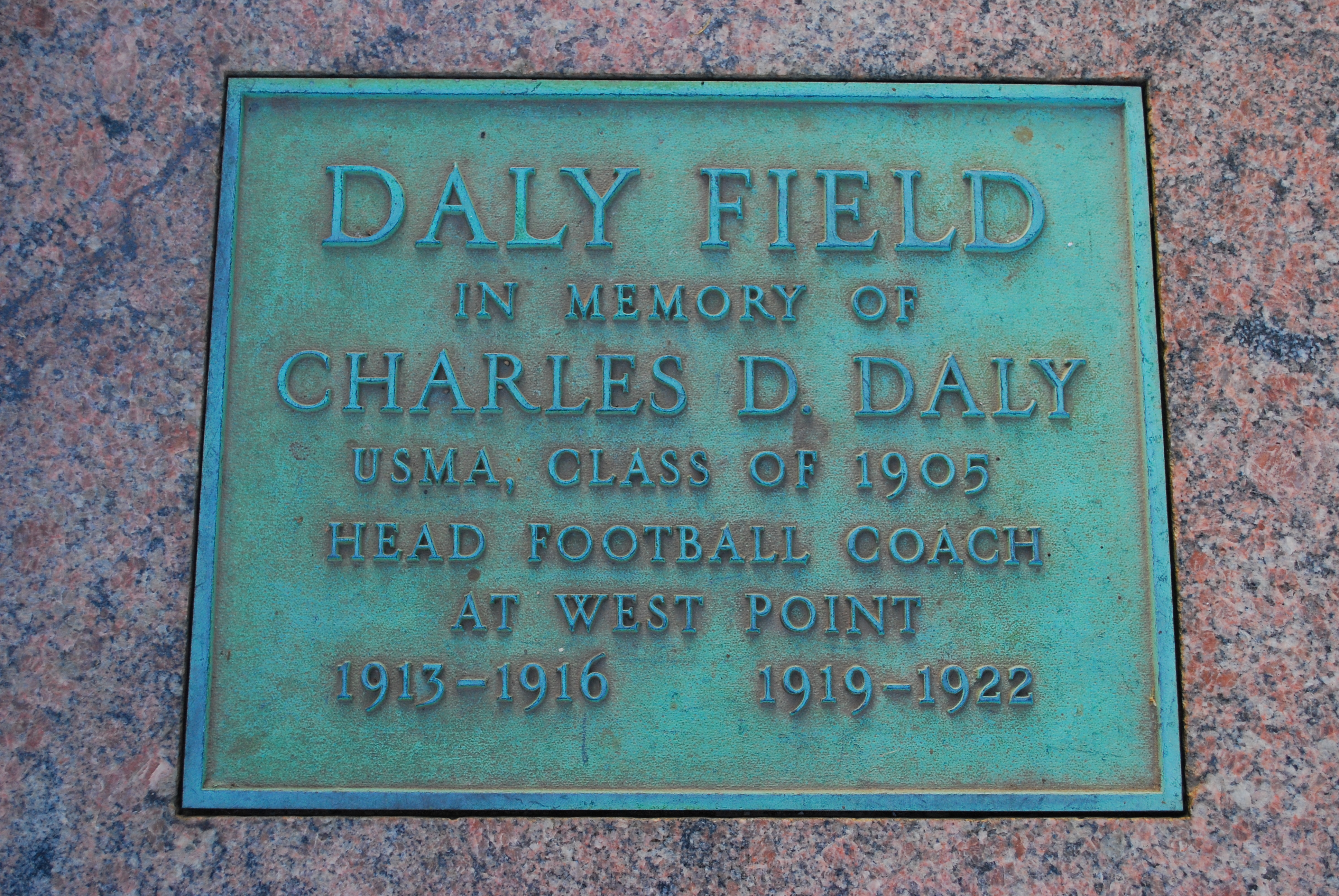 Memorial bench commemorating Charles D. Daly at the United States Military Academy at West Point, NY.